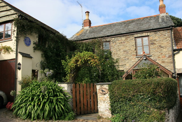 Crowberry Cottage, Georgeham. Henry Williamson, author of 'Tarka the Otter', wrote the book while living here in the 1920's. See the blue plaque at 1632757